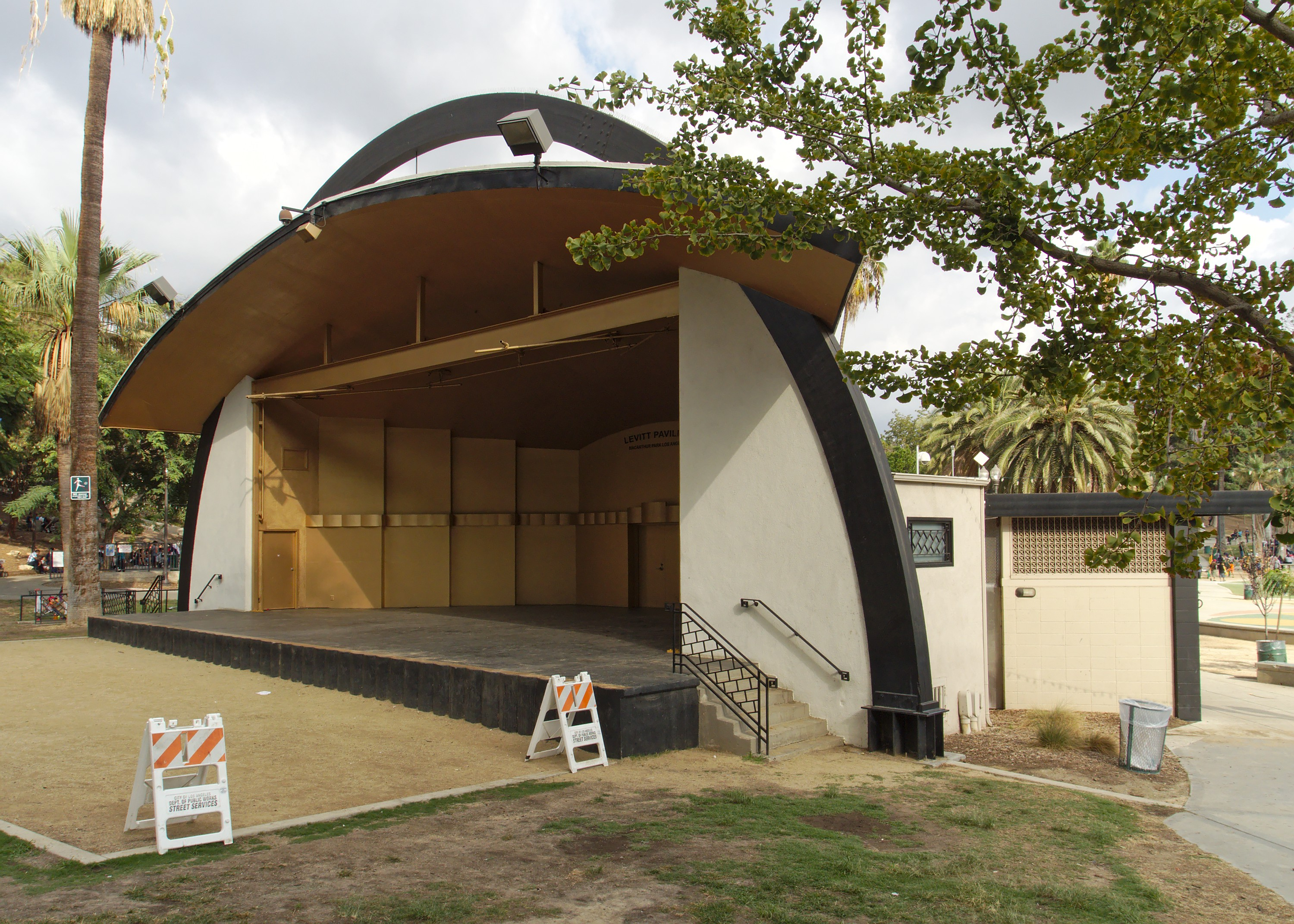 Levitt Pavilion bandshell at MacArthur Park north of Wilshire Boulevard, viewed from the southwest.